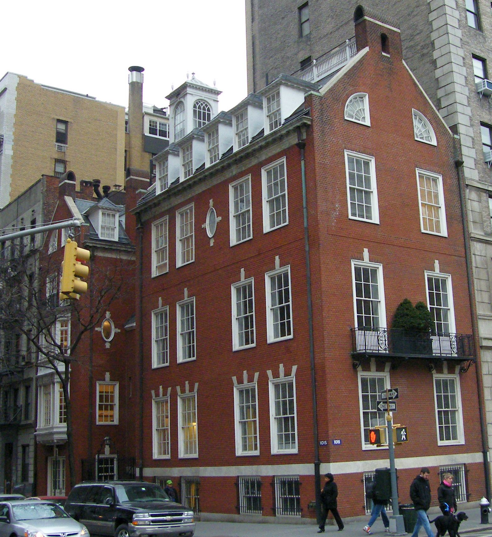 Lewis Governeur Morris House. 100 East 85th New York City on National Register Of Historic Places. NYCLPC designation 1973, Guidebook map 16. Ernest Flagg, architect 1913-14